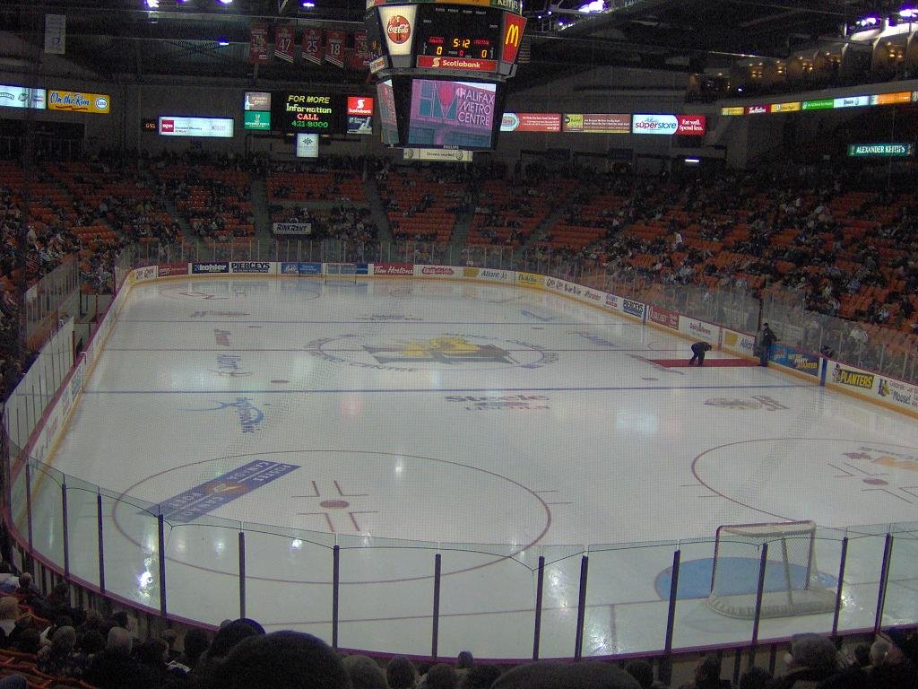 This work has been released into the public domain by its author, FrankCostanza. This applies worldwide. In some countries this may not be legally possible; if so: FrankCostanza grants anyone the right to use this work for any purpose, without any conditions, unless such conditions are required by law.